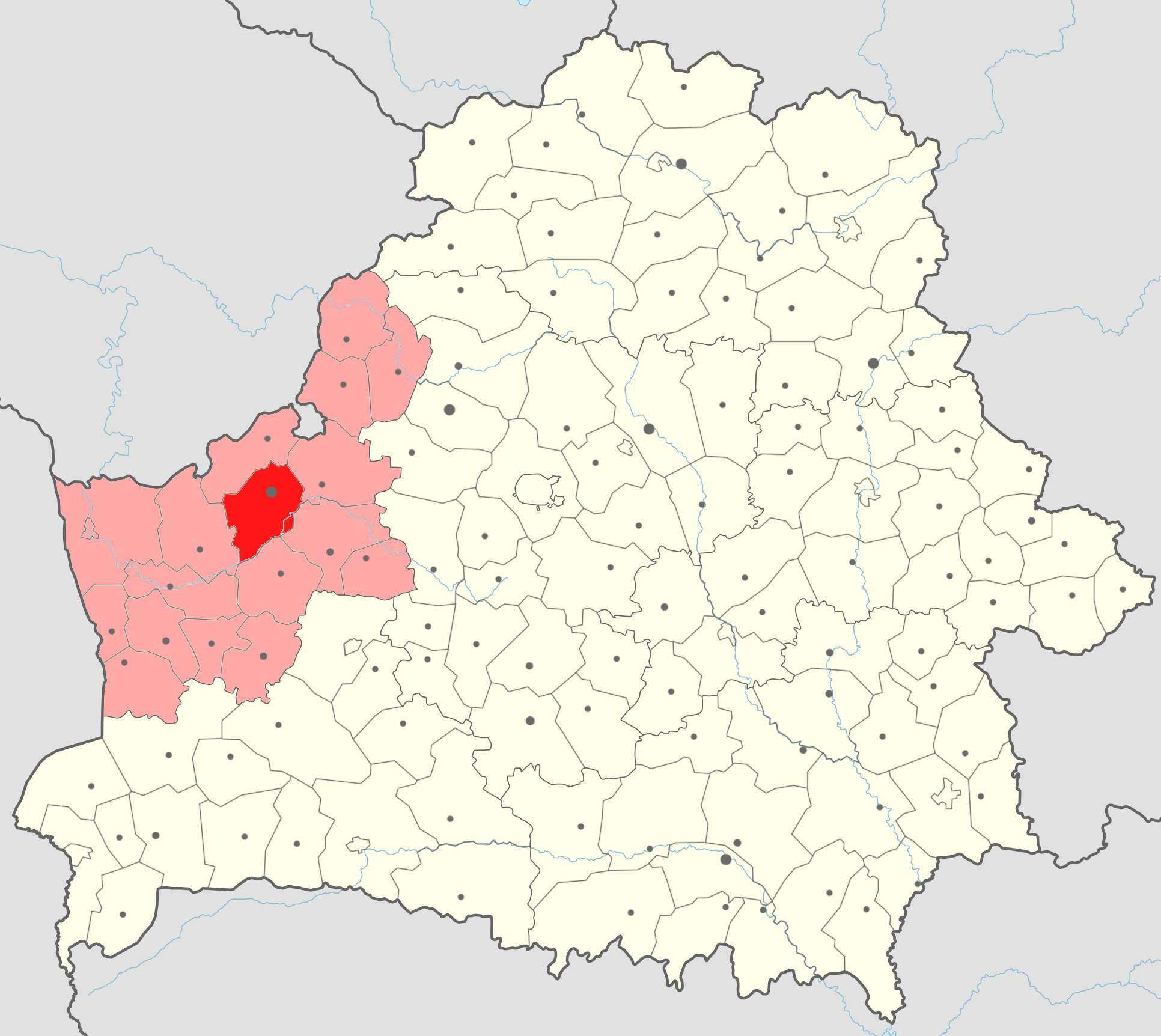 Map of Lidski rayon (in red) with Hrodna voblast' (in light red) on the map of Belarus.